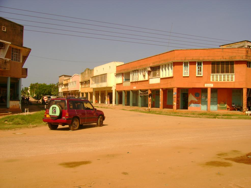 Mtwara City Center - a place,called Madukani